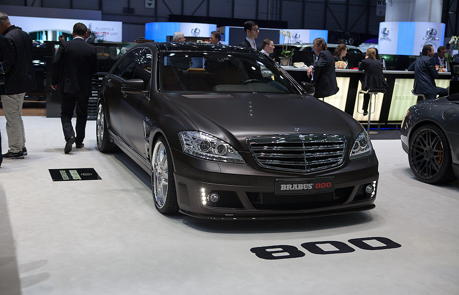 Motorshow Geneva 2012